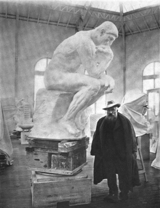 Auguste Rodin